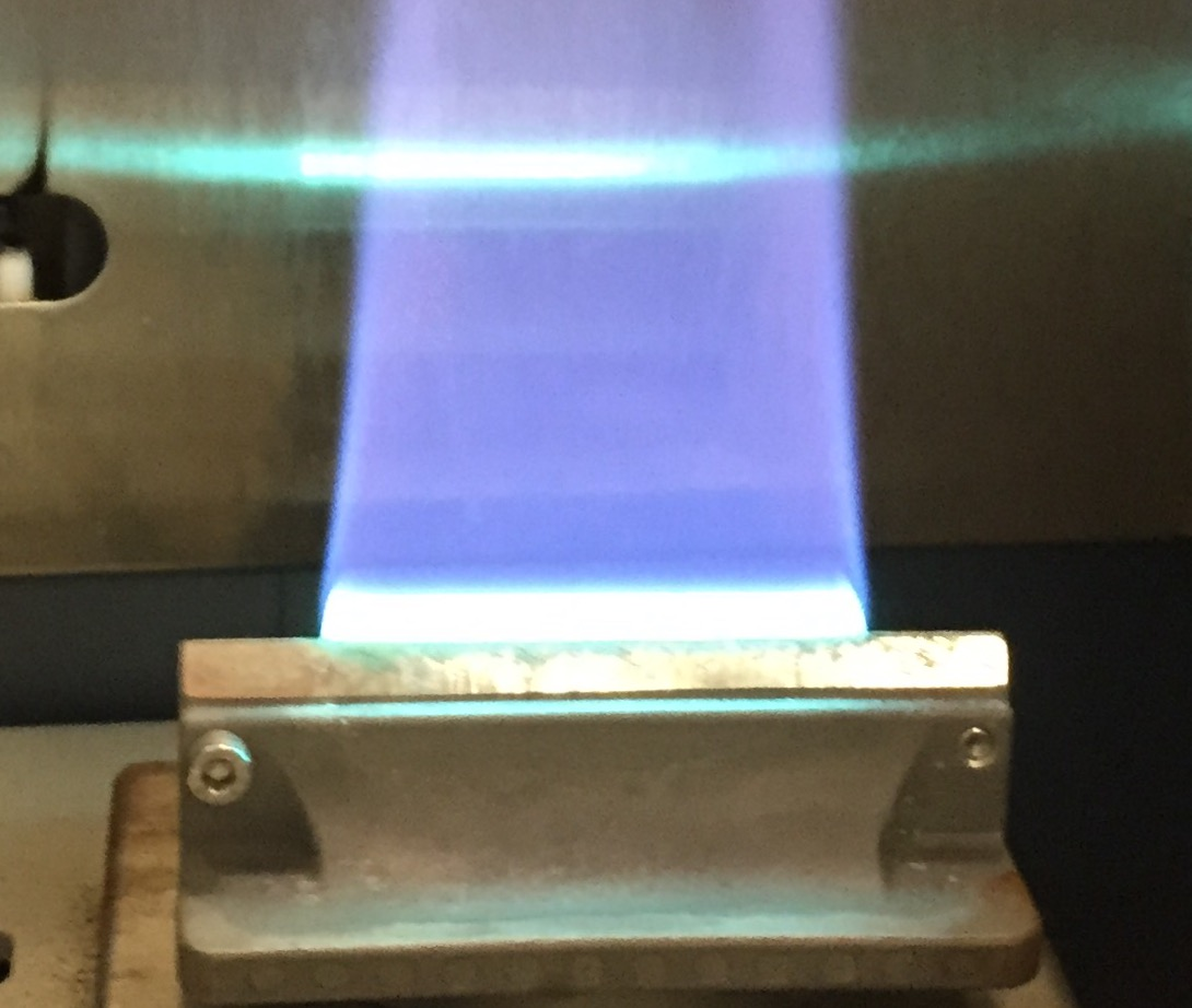 Close up on base of acetylene flame